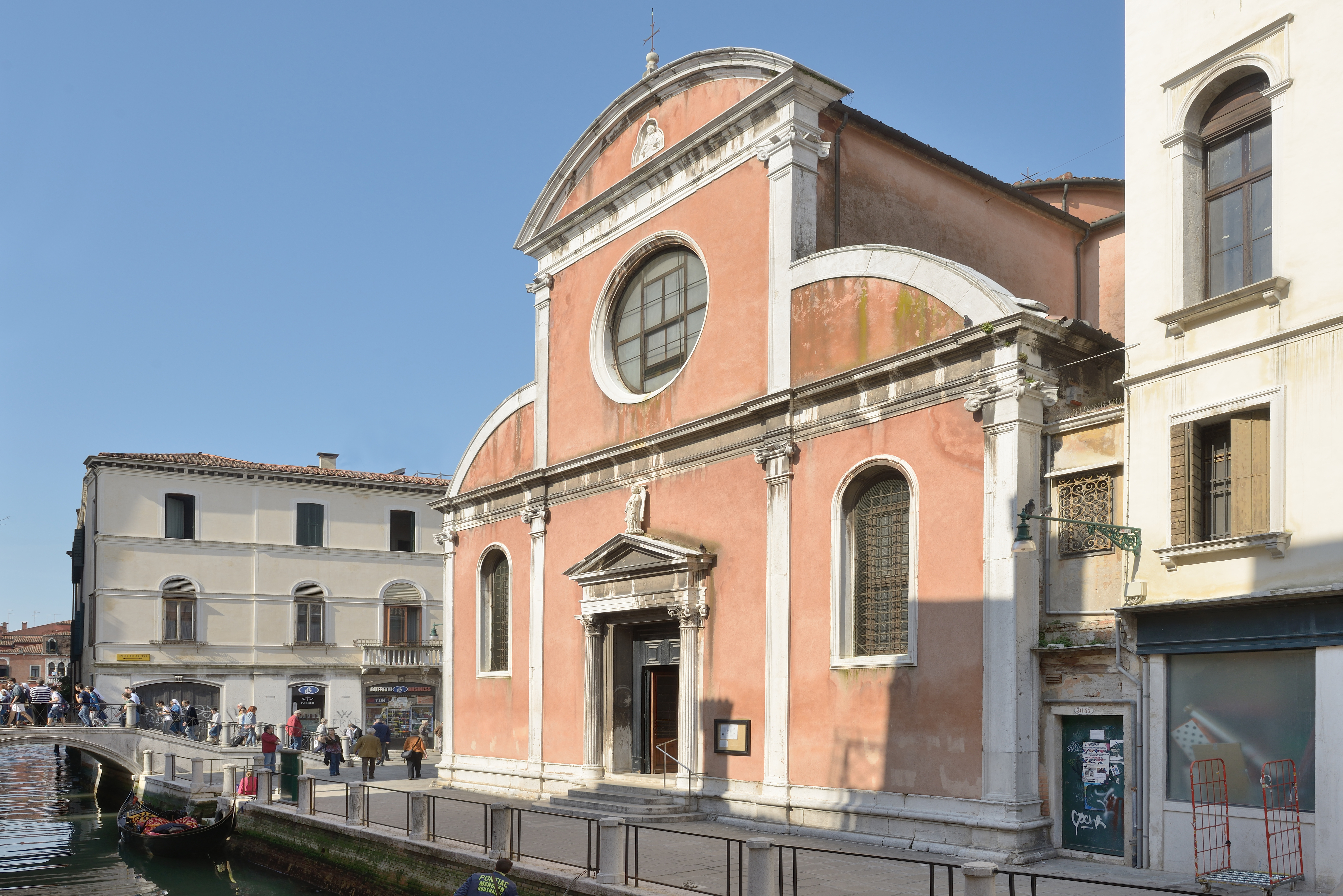 "San Felice" church in Venice